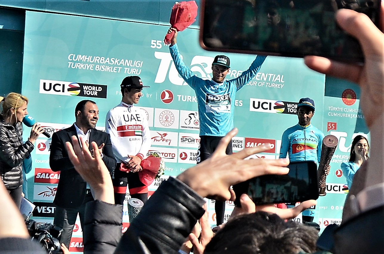 Winners of the General classification at the 55th Presidential Cycling Tour of Turkey 2019 at the award ceremony. From left to right: runner-up Valerio Conti (UAE Team Emirates), winner Felix Großschartner (Bora–Hansgrohe), 3rd place Merhawi Kudus (Astana Pro Team).